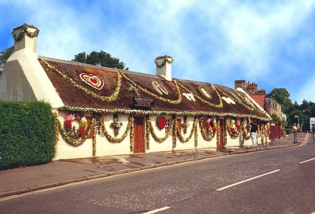 Burns Cottage Bicentenary of Robert Burns death